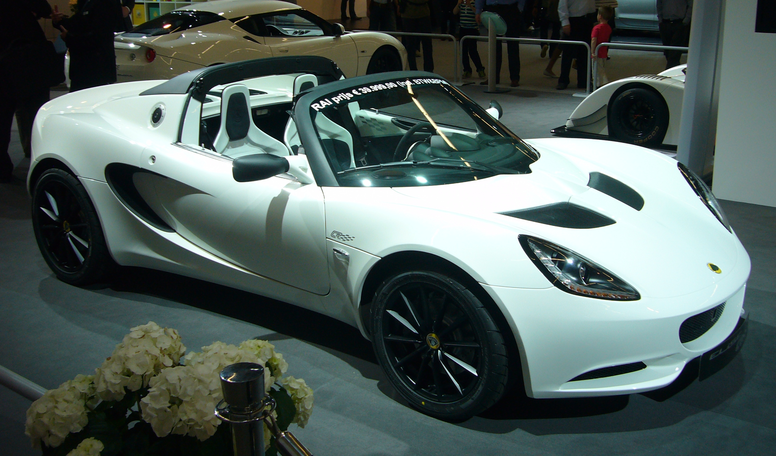 Lotus Elise Club Racer at AutoRAI Amsterdam 2011